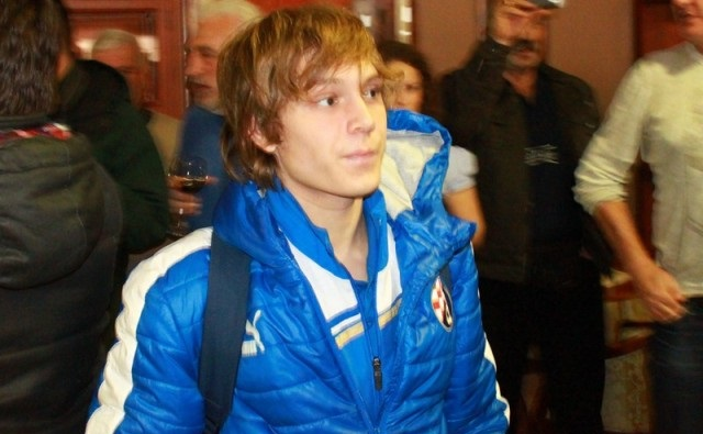 Alen Halilović, player of GNK Dinamo Zagreb in Međugorje